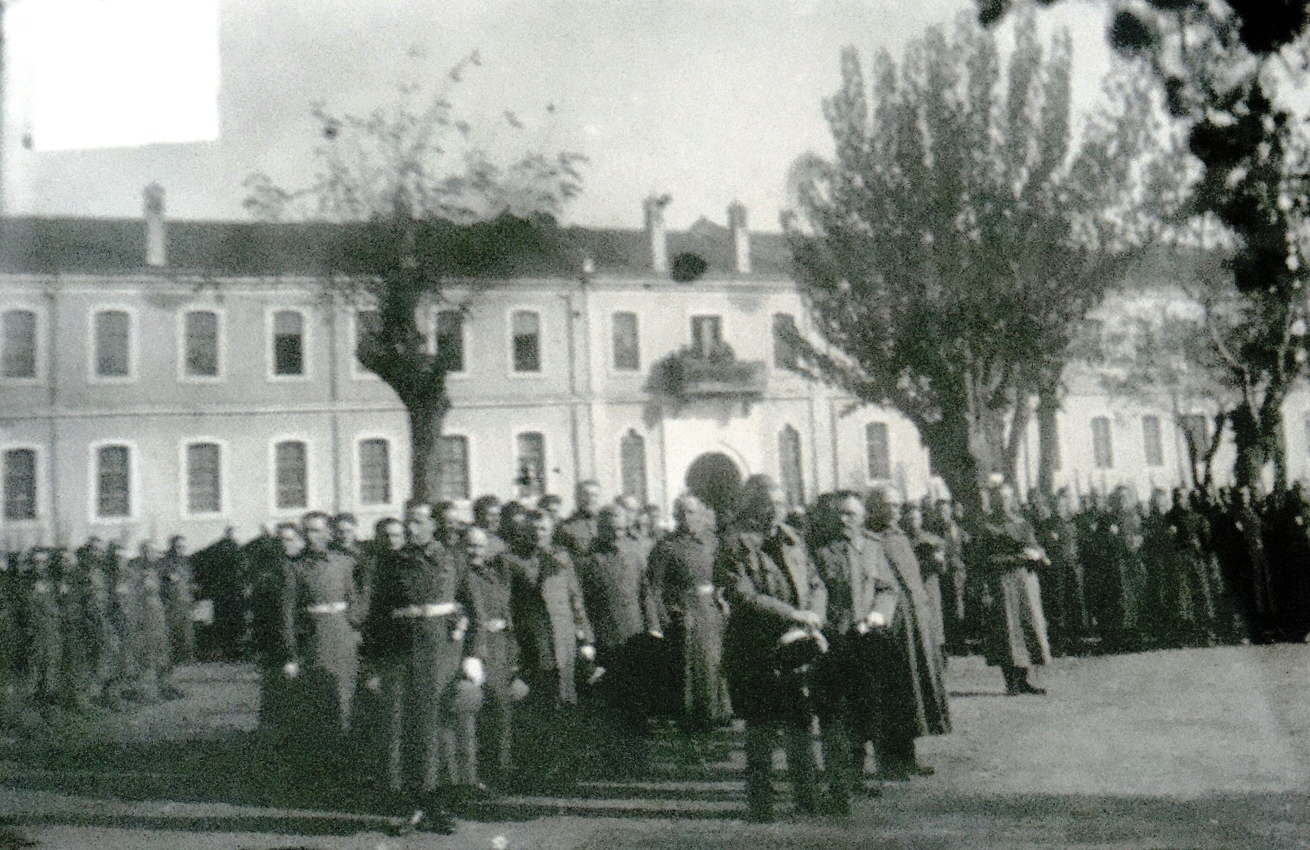 Giving the military oath in the barracks in Bitola, 1921 (Damaged glass plate) This media file is produced by Wikipedian in Residence in Category:Wikipedian in Residence at DARM in 2016.